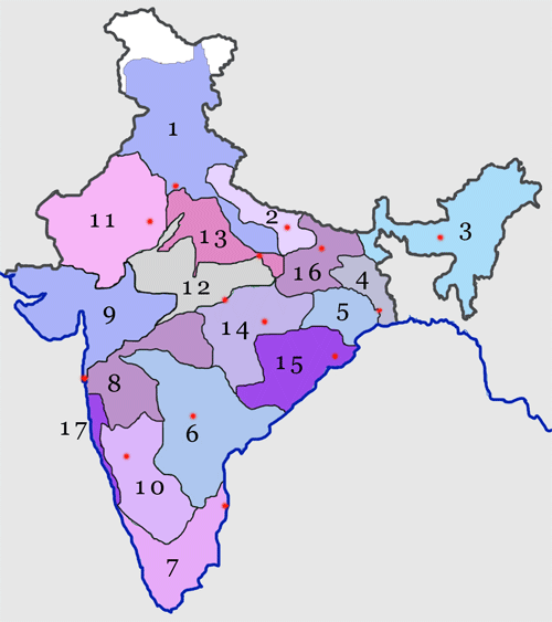 Zones sorted by their numbering1-Northern 2-North Eastern 3-Northeast Frontier 4-Eastern 5-South Eastern 6-South Central 7-Southern 8-Central 9-Western 10-South Western 11-North Western 12-West Central 13-North Central 14-South East Central 15-East Coast 16-East Central 17-Konkan Railway